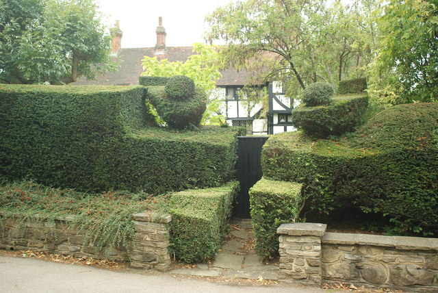 Topiary at West Clandon A health warning should be attached to this photograph. There is a footpath on only one side of the road (the wrong side); so, even with a wide angle lens on the camera, I had to stand in the middle of the road!